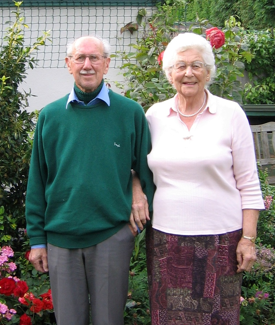 Keith Lawrence and his wife Kay on their Diamond Wedding in 2005. They first met at the RAF Hospital at Halton after he was shot down at the end of November 1940.